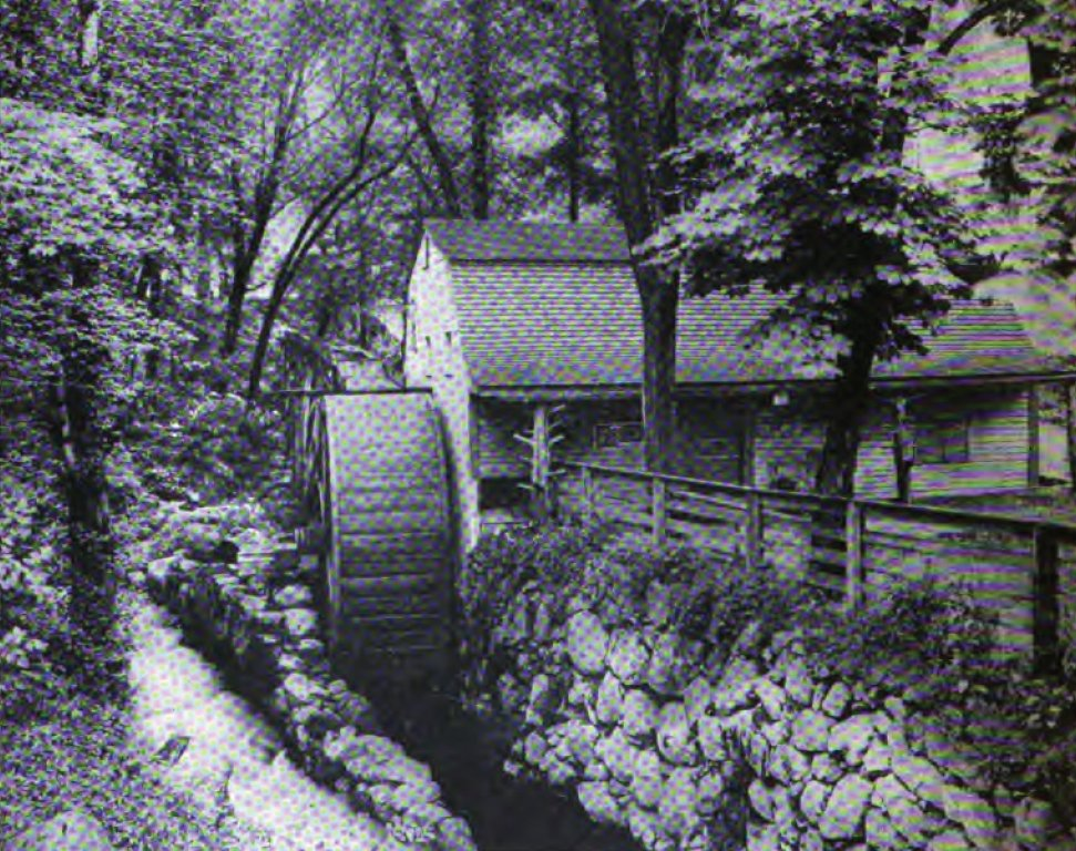 Photograph taken 1910 of the gristmill in New London, Connecticut, built by John Winthrop the Younger in 1650